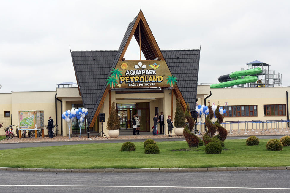 Aqua park Petroland in Bački Petrovac, Serbia.